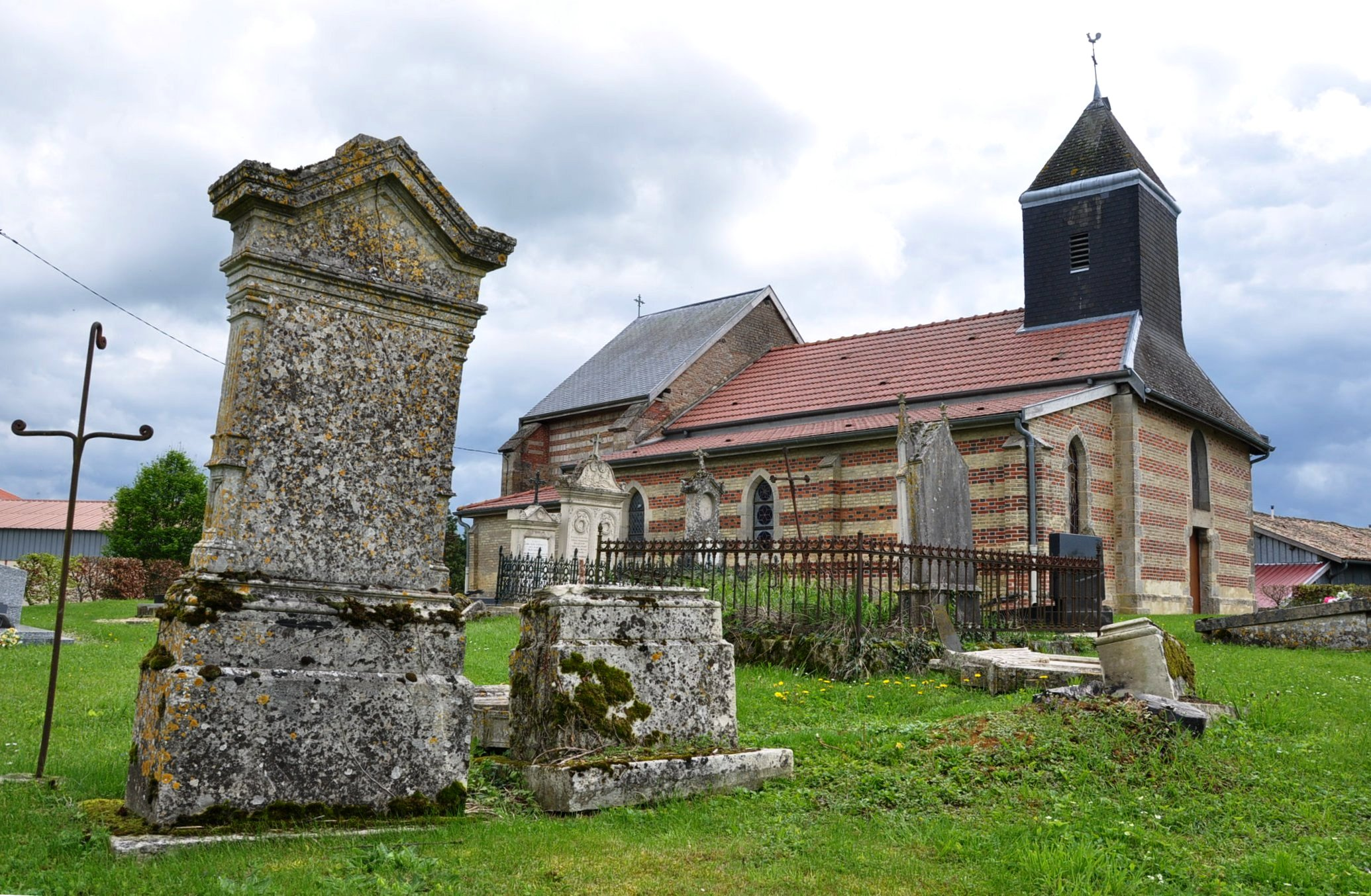 Church of St. Julian in Élise (municipality of Élise-Daucourt, canton Sainte-Ménehould, arrondissement Sainte-Ménehould, Marne department, Champagne-Ardenne region, France). The church is not a listed building.